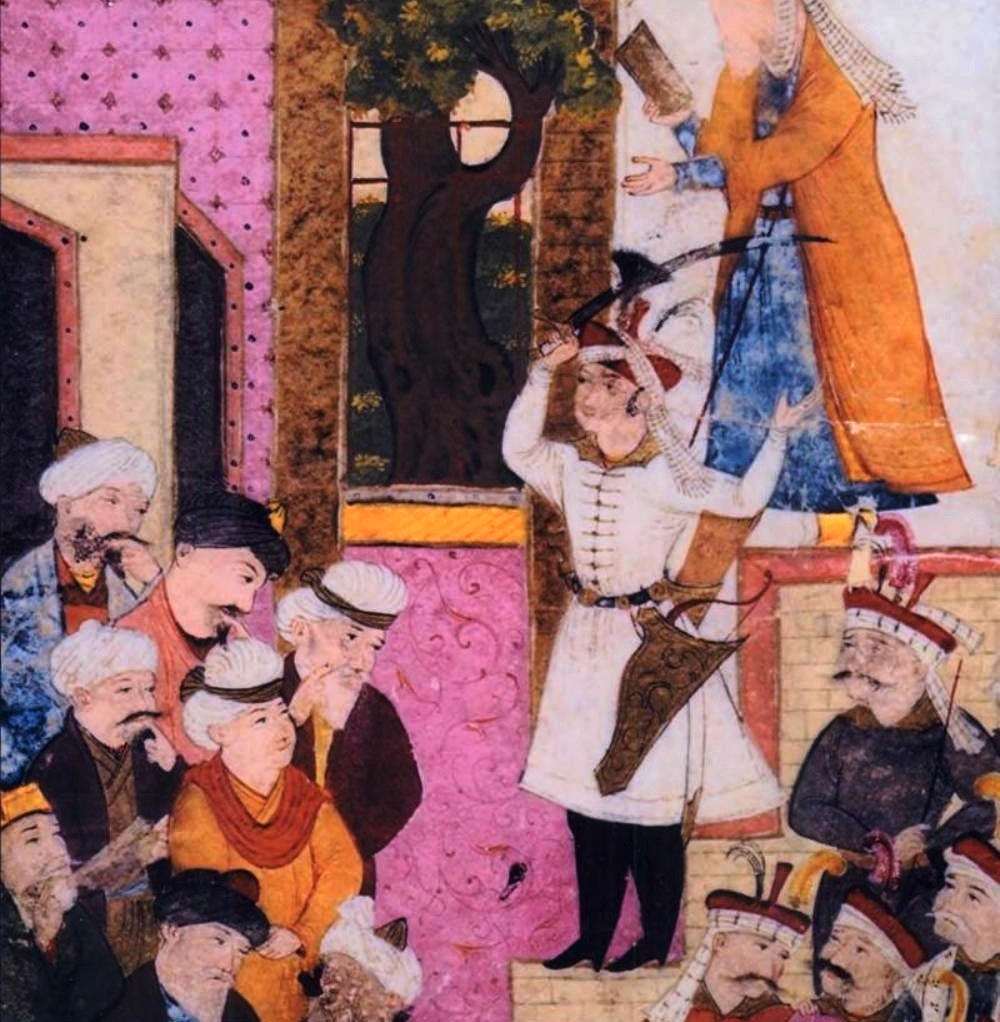 The declaration of Shi'ism as the state religion of Iran in 1501 by Shah Ismail - Safavids dynasty The caption reads "On Friday, the exalted king went to the congregational mosque of Tabriz and ordered its preacher, who was one of the Shi'ite dignitaries, to mount the pulpit. The king himself proceeded to the front of the pulpit, unsheathed the sword of the Lord of Time, may peace be upon him, and stood there like the shining sun"